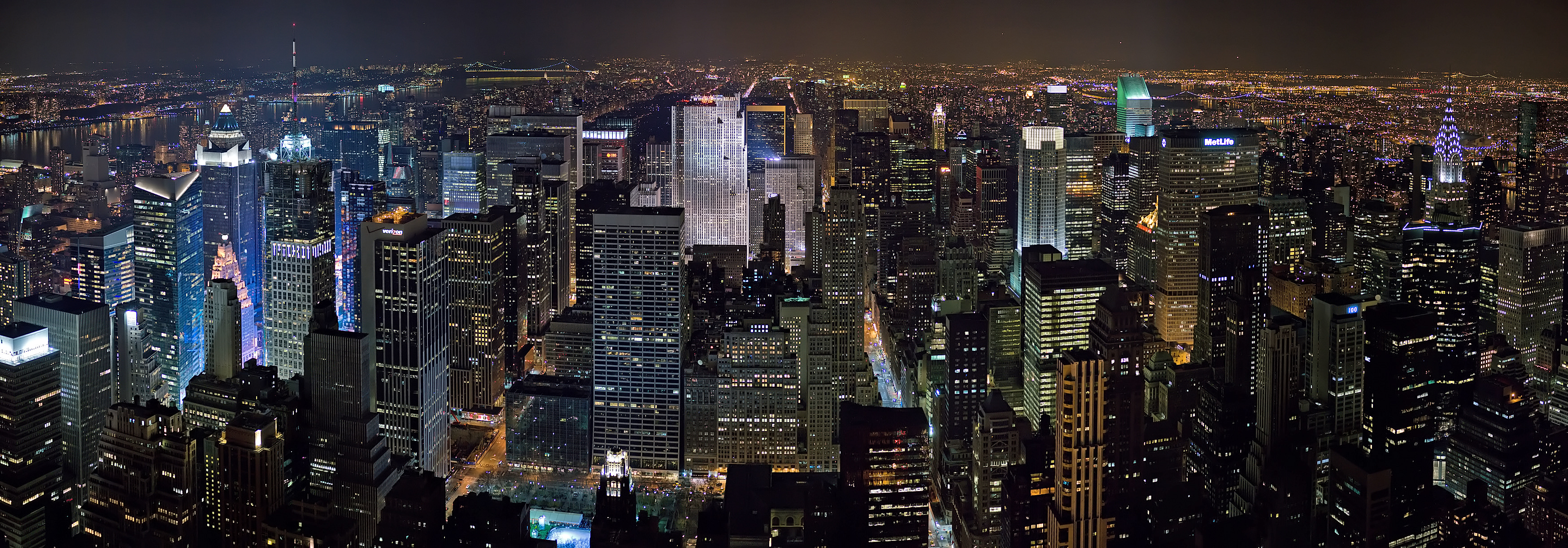 A 20 segment panoramic image of the New York Midtown skyline as viewed from the Empire State Building at night (looking North). Taken with a Canon 5D and 85mm f/1.8 lens at f/1.8, ISO 800 and 1/40s exposures.